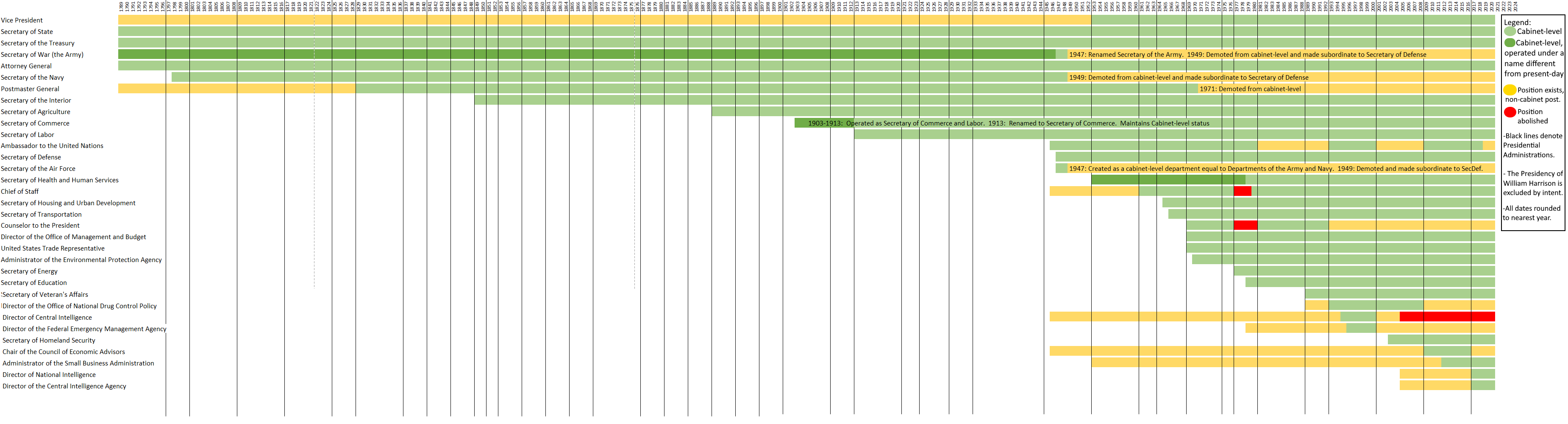 A map that shows the historical makeup of the Cabinet of the United States by year. Green represents a part of the Cabinet. Yellow means the office existed, but was not cabinet-level. Red means the office was abolished. Black vertical lines denote Presidential administrations, with the presidency of William Henry Harrison intentionally excluded. All dates are rounded to the nearest year.